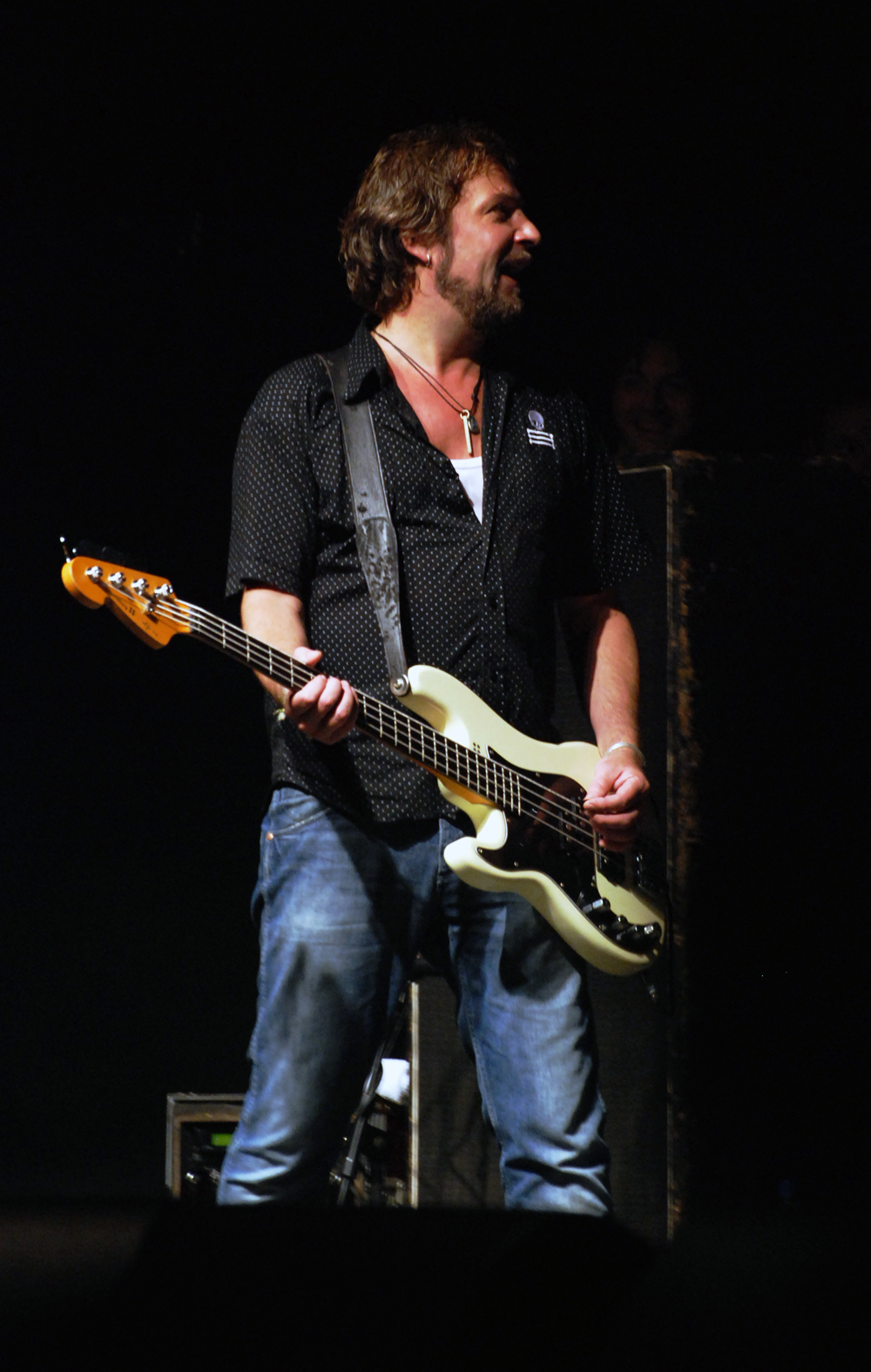 Aslak Dørum of DumDum Boys live at Strandgateparken in Hamar, Hedmark, Norway.